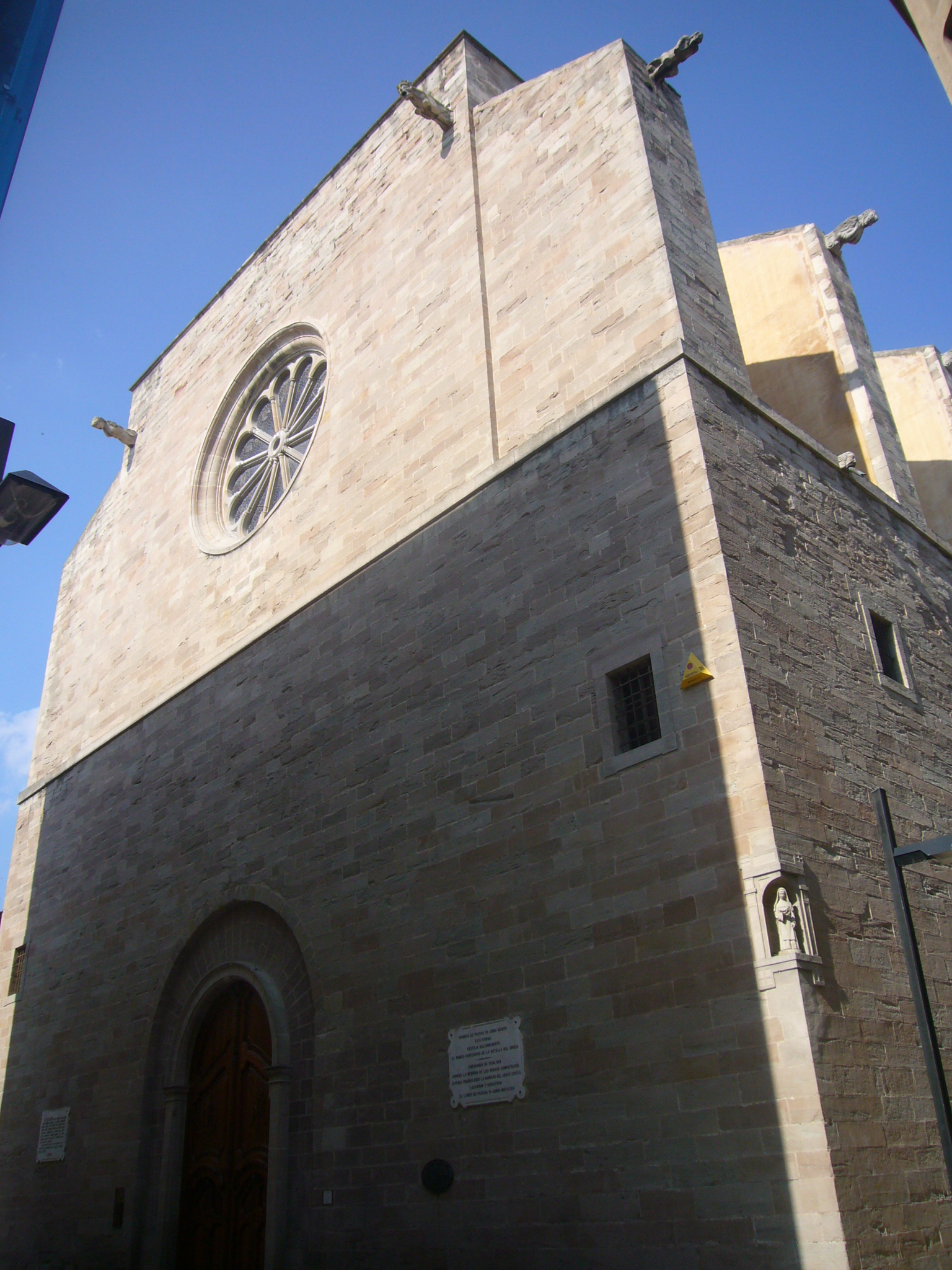 Basilica of Santa Maria, Igualada